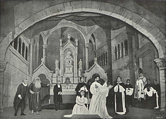 Photograph of the final scene of Almeida Garrett's play Frei Luís de Sousa, performed in the Príncipe Real Theatre in 1908.